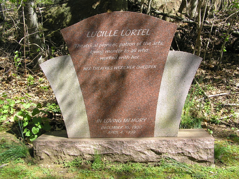 I took this photograph of Lucille Lortel's grave in Westchester Hills Cemetery on April 28, 2006. —GNU Free Documentation License